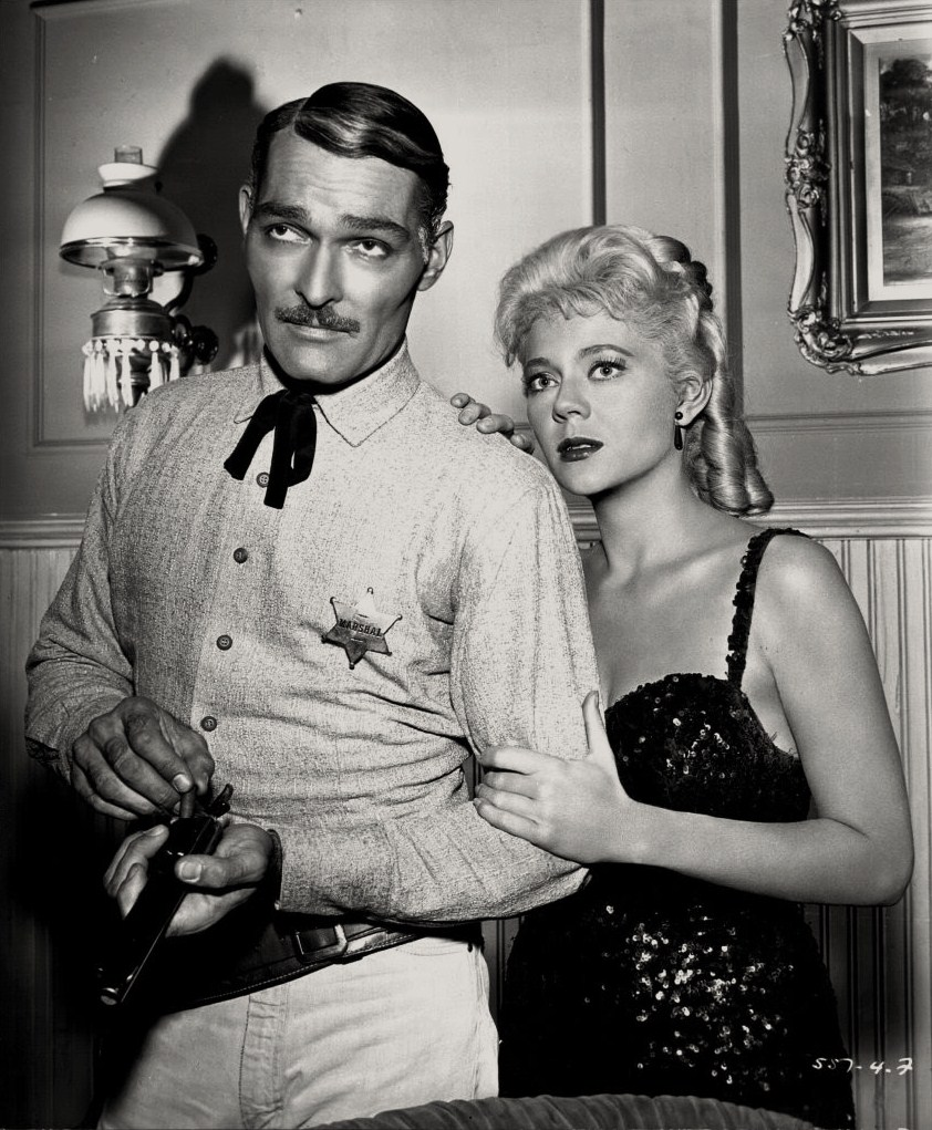 John Russell & Peggy Castle (aka Peggie Castle) in the TV series Lawman, episode Clootey Hutter - publicity still